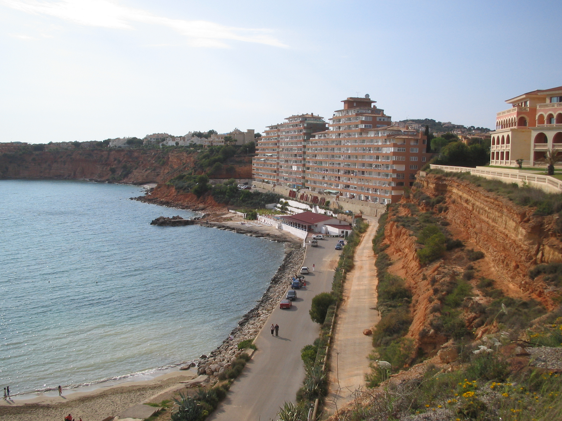 A spanish town called el Toro in the municipality of Calvià, Mallorca.